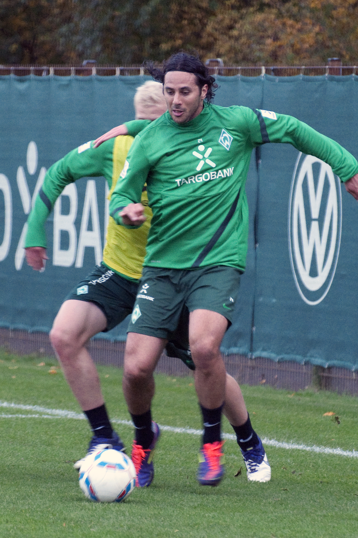 Claudio Pizarro, November 2011.